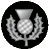 Divisional patch (Thistle) for the British 9th (Scottish) Division.